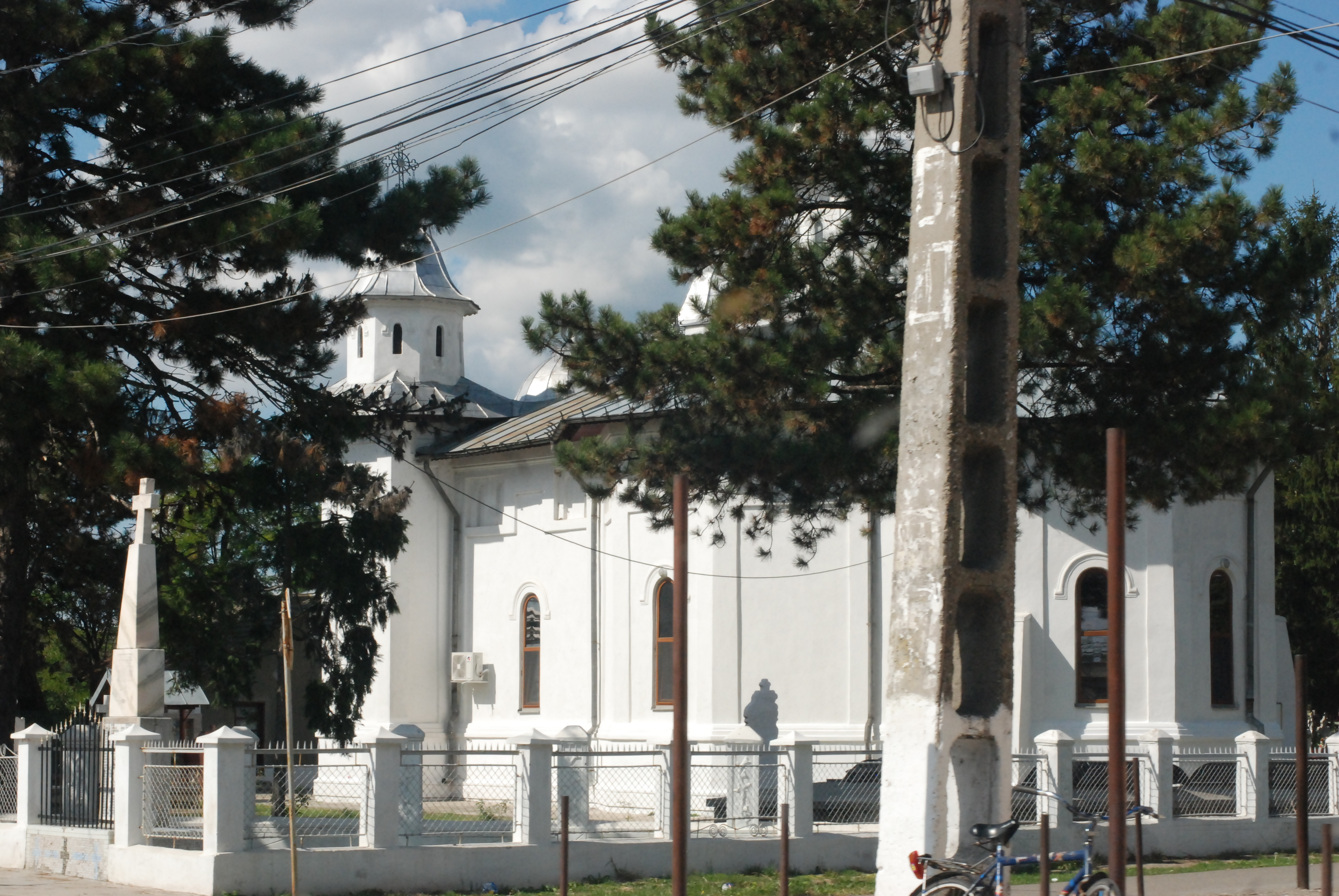 Church in Loloiasca, Tomșani commune, Prahova County, Romania